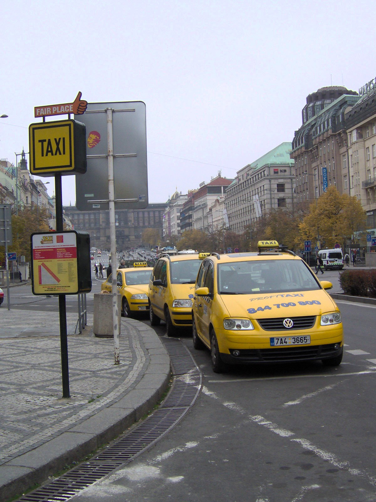 Taxicabs, Prague, Czech Republic